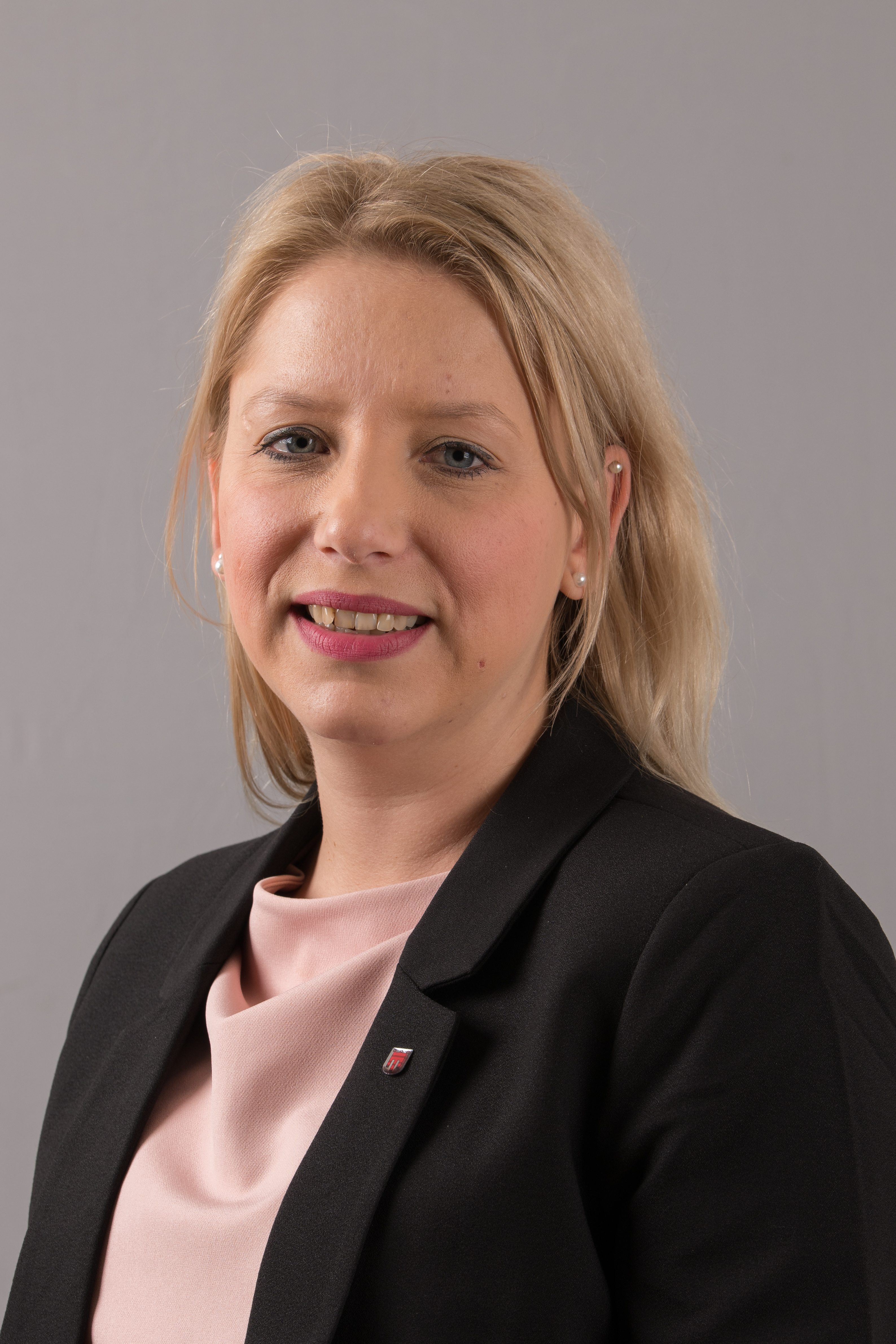 13/12/17, Bregenz/Vorarlberg, Landtagsprojekt Vorarlberg. Picture shows Nicole Hosp (FPÖ), delegate to the Vorarlberger Landtag since 2014